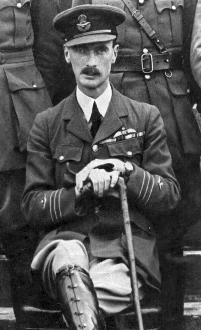 This image is a digitized photograph of Lieutenant Colonel (later Air Vice-Marshal Sir) Norman MacEwen. Norman MacEwan is shown wearing the initial RAF uniform design which was only in use from April 1918 to August 1919 and so the photograph is more than 50 years old. Therefore it is now in the public domain. I release my changes to the public domain.